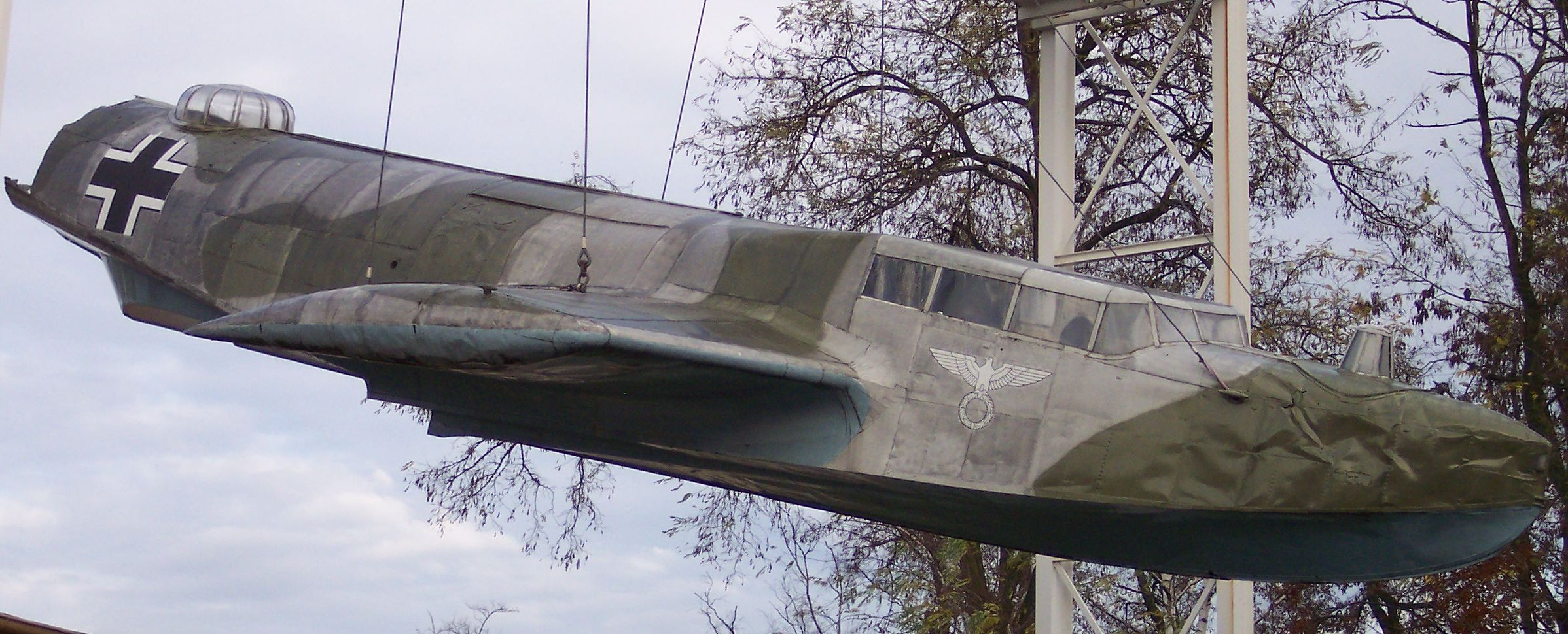 A fuselage of a Dornier Do 24T-3 at the "Technik Museum Speyer", Speyer, Rheinland-Palatinate, Germany. It was salvaged from Lake Müritz, Germany, in 1991.